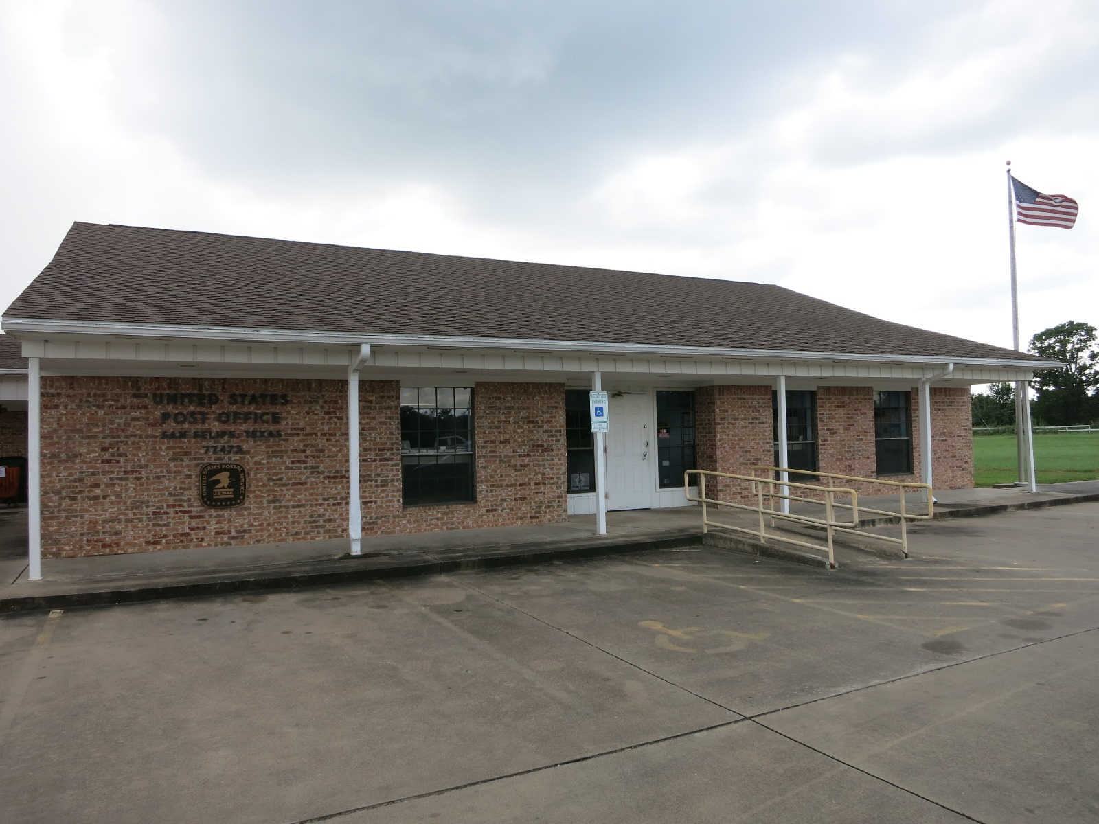 Photo shows the US Post Office at FM 1458 and Campo Santo Street in San Felipe, Texas. View is to the northwest.